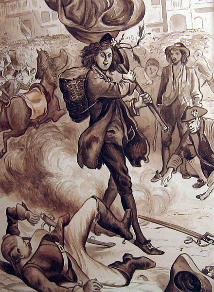 Barnaby Rudge - Charles Dickens